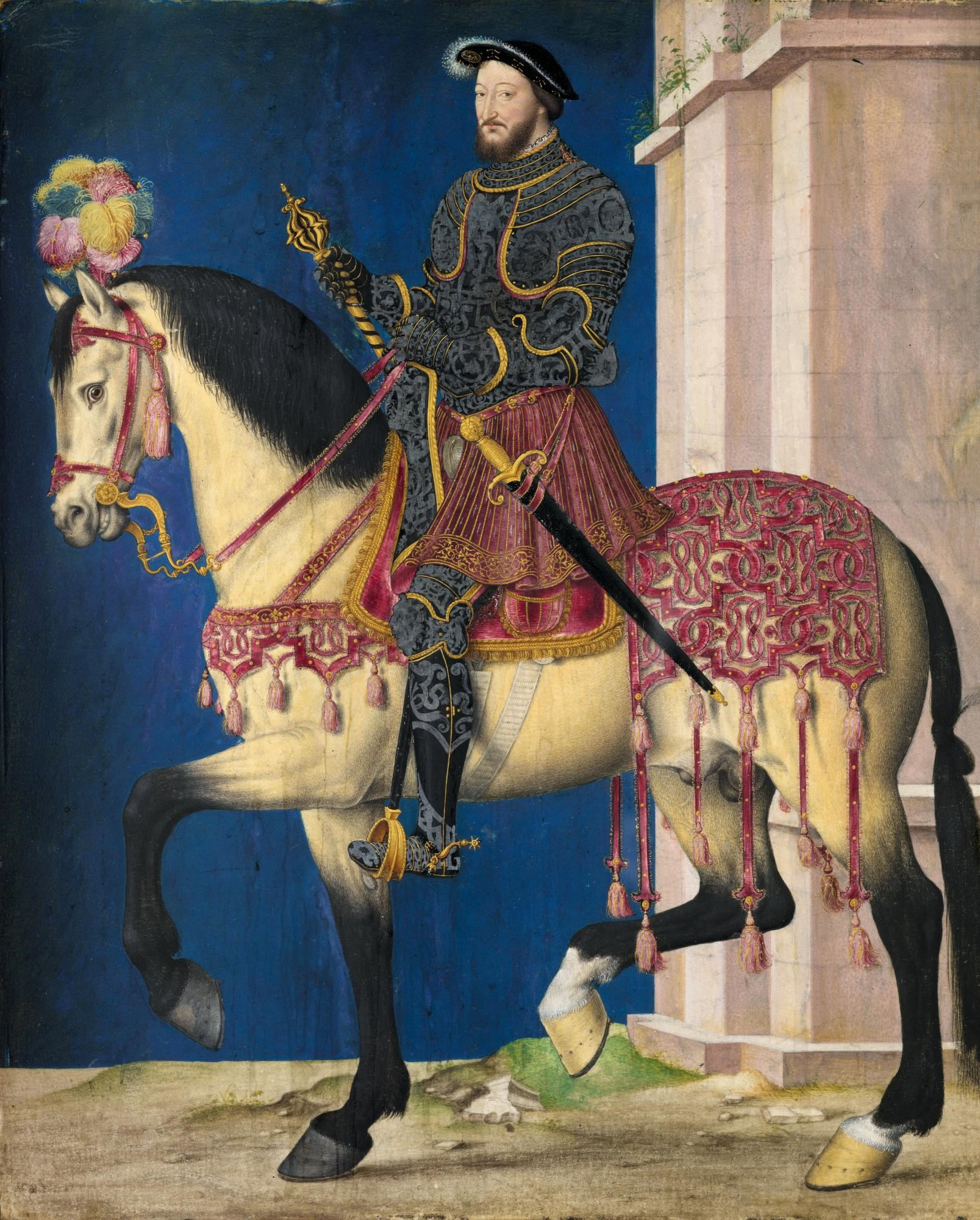 Portrait of Francis I of France (1494-1547)